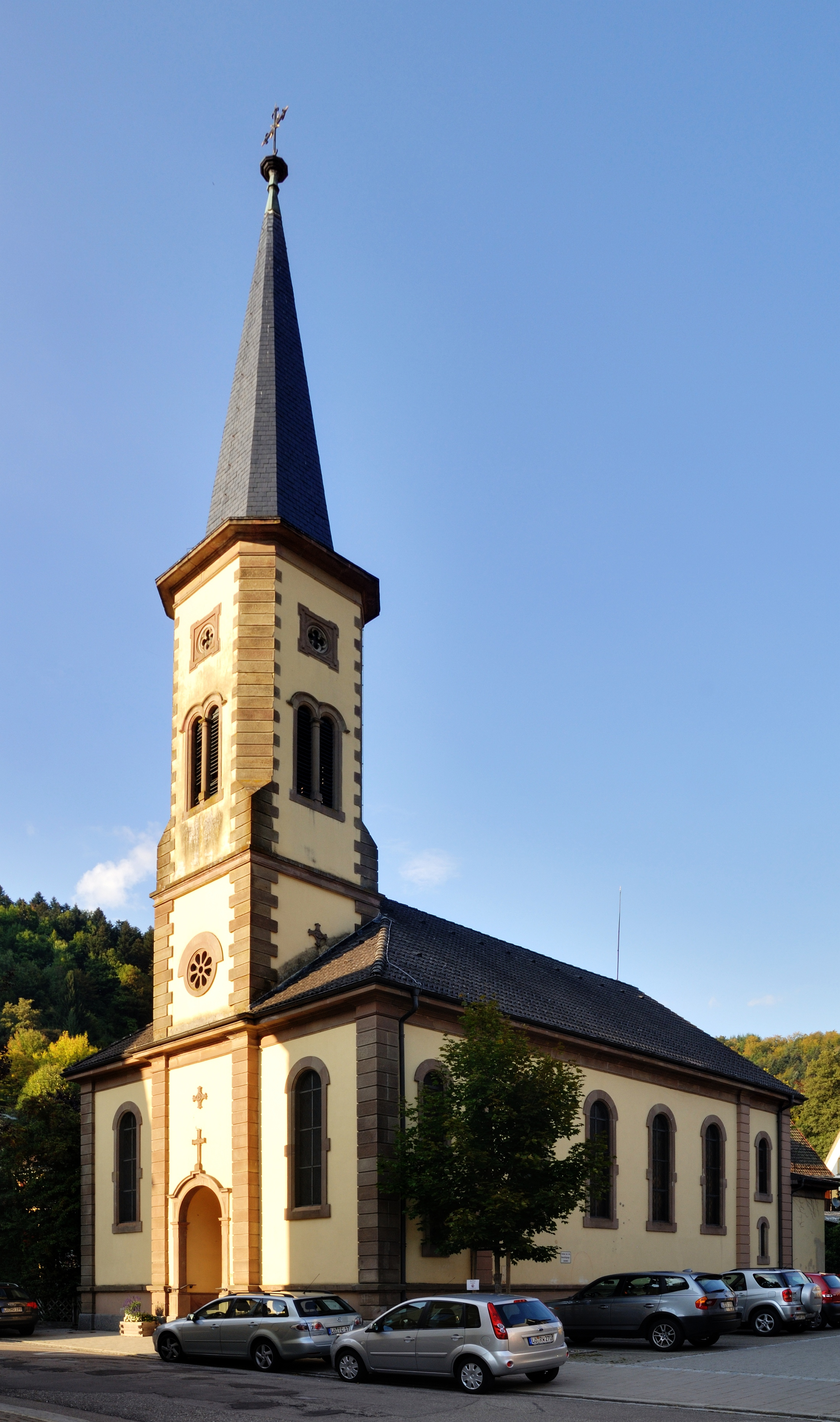 Zell: Old Catholic Church